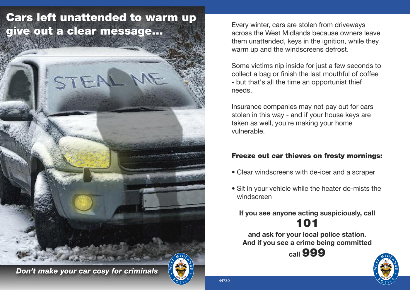 FROSTY WARNING TO VEHICLE OWNERS LOCK it or lose it - that's the message from police as drivers are warned to take care of their vehicles during frosty mornings. During cold spells such as this morning, some motorists may be tempted to leave their car engines running to heat up and de-ice while they wait inside the house in the warmth, leaving their vehicles and valuables vulnerable to theft. Sergeant Andy Gregory, the force’s crime reduction supervisor, said: "The simple message from the police is do not leave a car unlocked, running and unattended for any length of time whether it is left on your own driveway to de-frost or at any other time. "There are people who will steal if the opportunity presents itself and others who deliberately go in search of such opportunities - please do not give anyone the chance to steal your property." Police also advise motorists to install a tracking device into their vehicles as this can assist in a speedy recovery of returning stolen vehicles to their owners. Drivers can also get vehicle crime prevention advice by visiting the Safer Motors website at Anyone who witnesses any suspicious activity is asked to report it immediately to their local police station on 101.